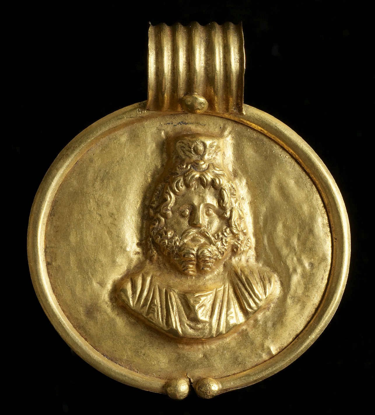 The god Sarapis emerged in Egypt at the beginning of the Hellenistic era, when the country was occupied by Alexander the Great (332 BC) and a dynasty of Macedonian kings, the Ptolemies, ruled Egypt. It was Ptolemy I (305/304-282 BC) who gave the order to develop a new religious cult for his dynasty and the Egyptian state, and he dedicated the first temple to Sarapis at Alexandria for this purpose. For the Greeks, the creation of a new god was something extraordinary, but for the Egyptians the modification of religious concepts to fit new needs was a long-standing tradition. The priests chose the Egyptian god Osiris-Apis (named later also Osorapis), who was a protective deity, a god of oracles, and lord of time and eternity. They modified his name to Sarapis, and gave his visual representation a Hellenistic form, appropriating the shoulder-length hair and full beard of the Greek supreme deity Zeus; the "kalathos"--a woven grain basket--with which Sarapis is often crowned, symbolizes fertility. The participation of Egypt's Greek population in rituals for Sarapis and the Hellenized Isis was an expression of their loyalty to the dynasty (native Egyptians clung to their traditional gods), but the worship of Sarapis did not end with the extinction of the Ptolemies. To the contrary: the god became a universal deity in Roman times, venerated throughout the Mediterranean.